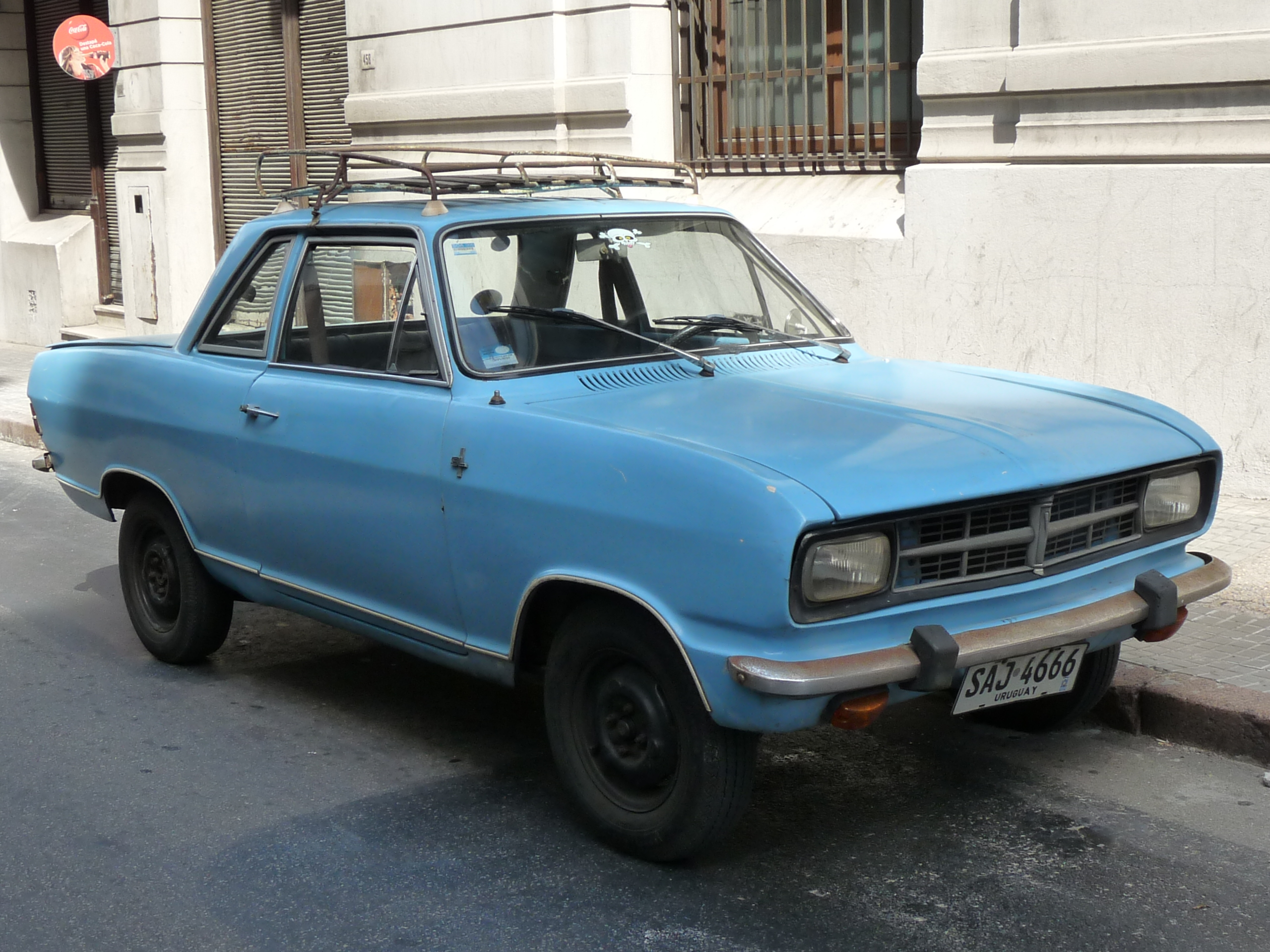 Grumett (1960-1982)